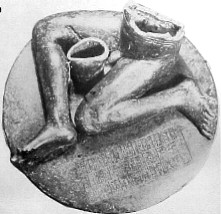 Recovered 2. IM #77823, US Customs #14. Bassetki Statue, with Akkadian inscription, copper, 25.5x70cm, weighs 150KG